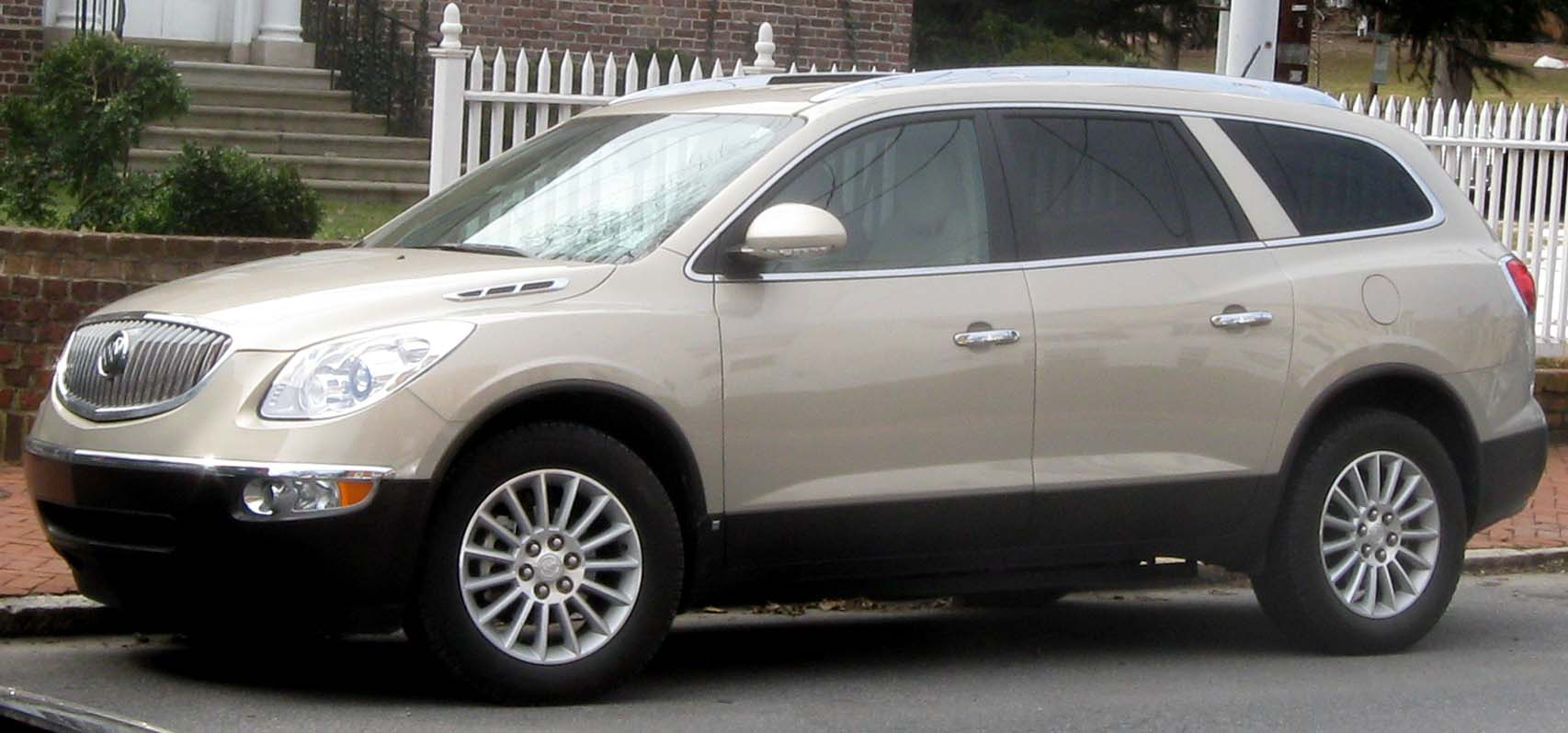 2008-2010 Buick Enclave photographed in Annapolis, Maryland, USA.